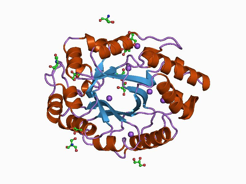 Cartoon representation of the molecular structure of protein registered with 1bg4 code.